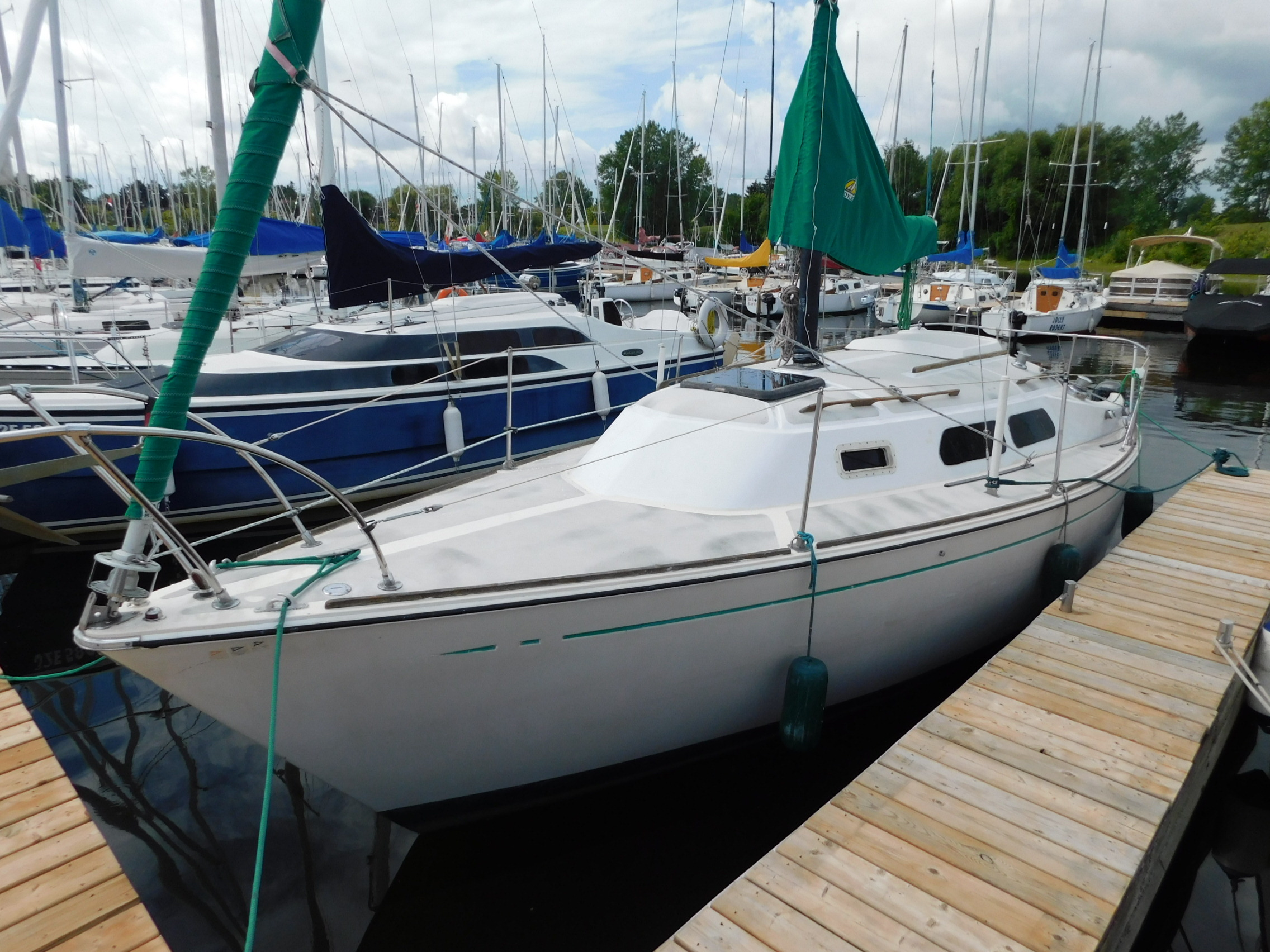 A Paceship PY 26 sailboat named Dalriada.